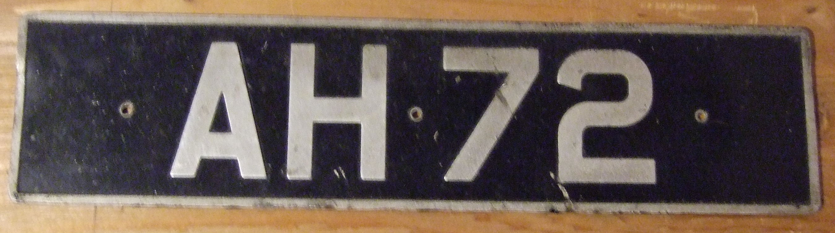 Early British plate, 1920's or earlier, very heavy guage aluminum.